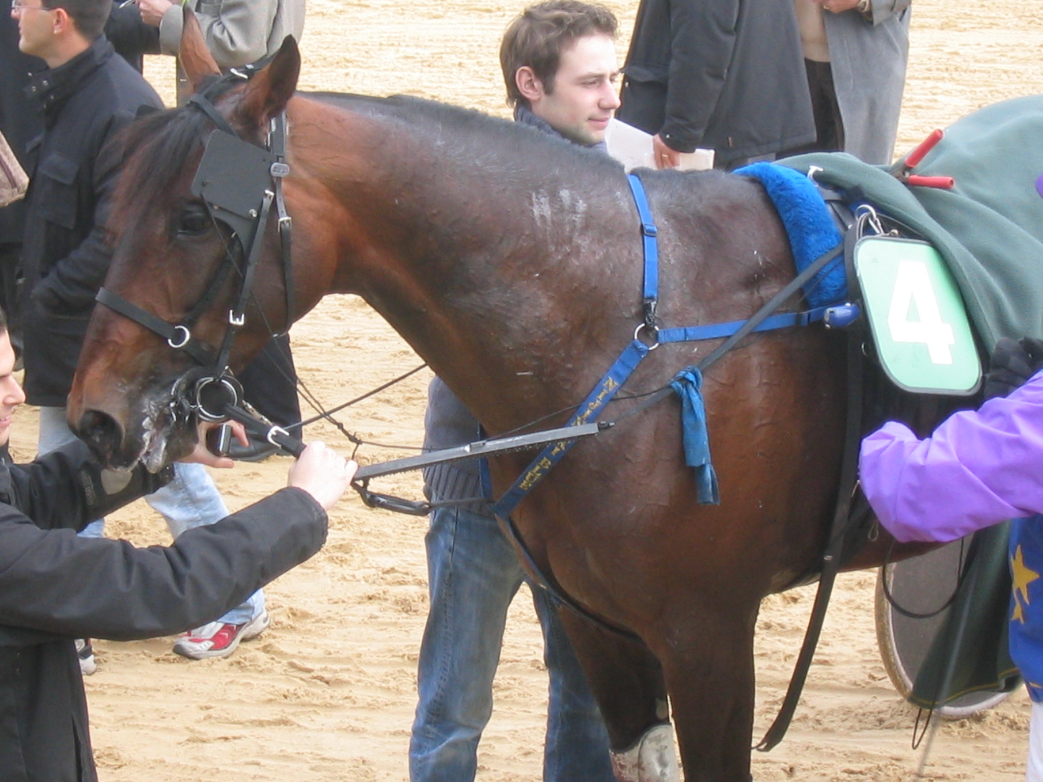 Squared blinders on Nijinski Blue in the Critérium de vitesse de Cagnes-sur-Mer 2008